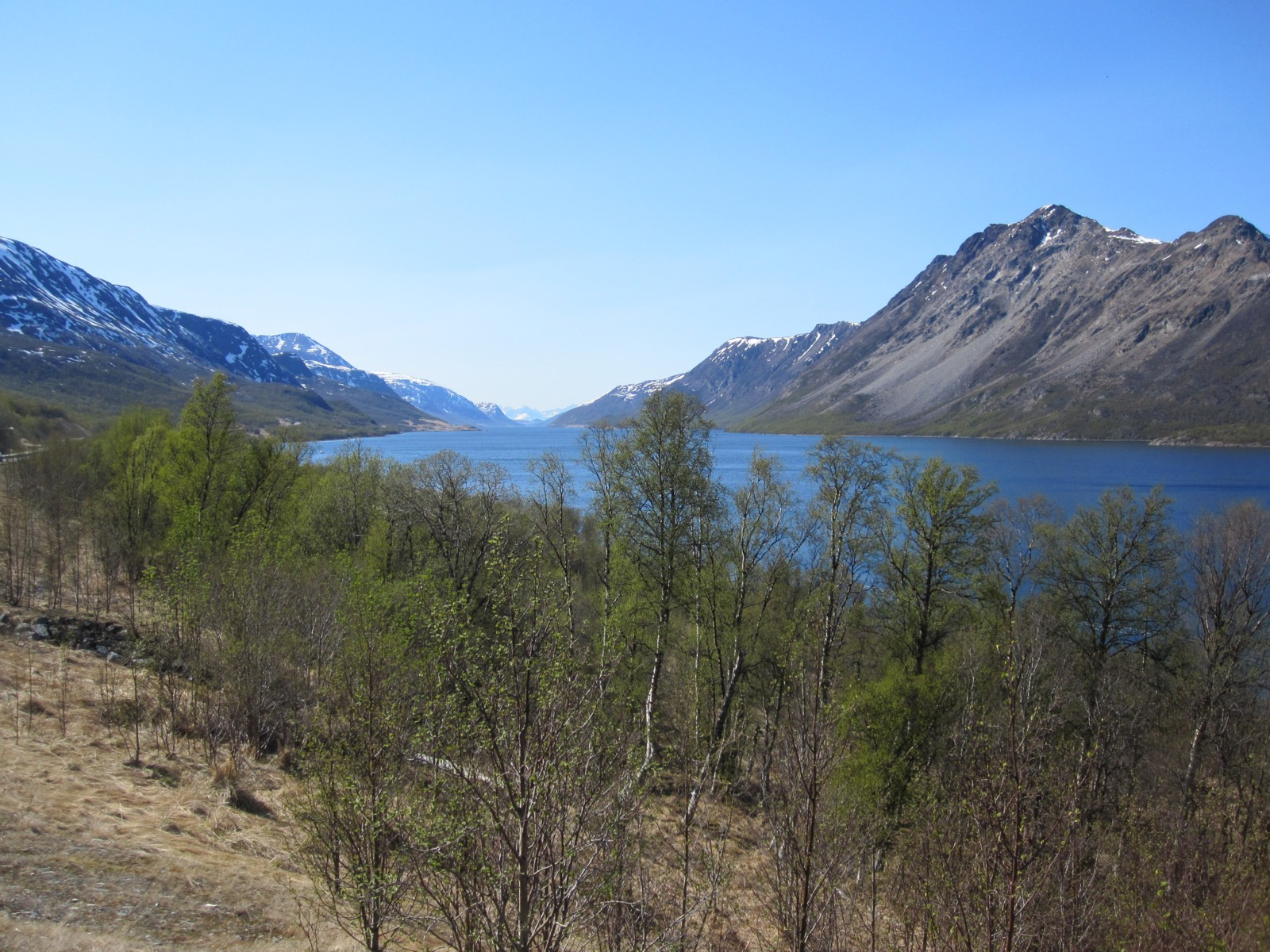 Langfjorden near Alta